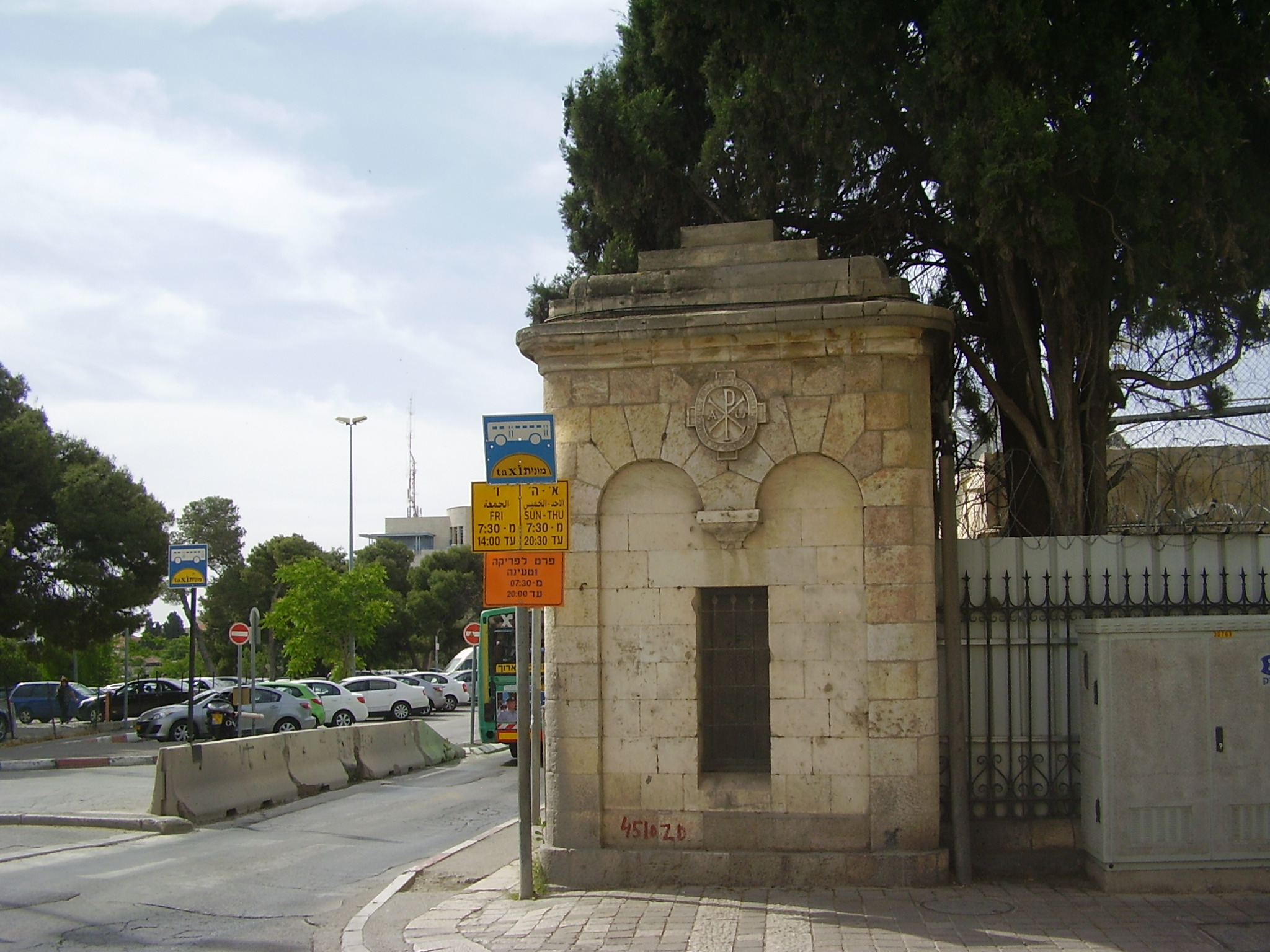 North Gate in Jerusalem\'s Russian Compound